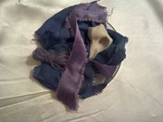 Synthetic silk and natural wool dyed with Hexaplex trunculus pigment . Note that the dye reacts differently with different types of fabric